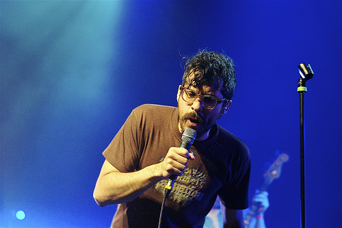 Yoni Wolf, singer of WHY?, during their concert at the Botanique in Brussels. Larger version on Flickr